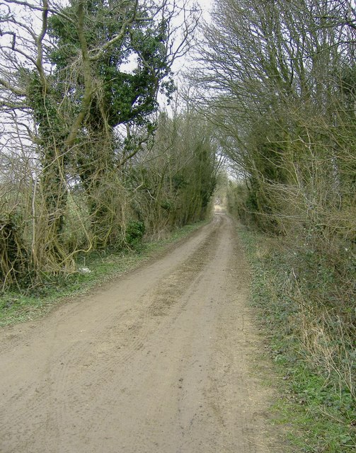 The Fosse Way The famous Roman road has 'byway' status along this section, near Long Newnton.